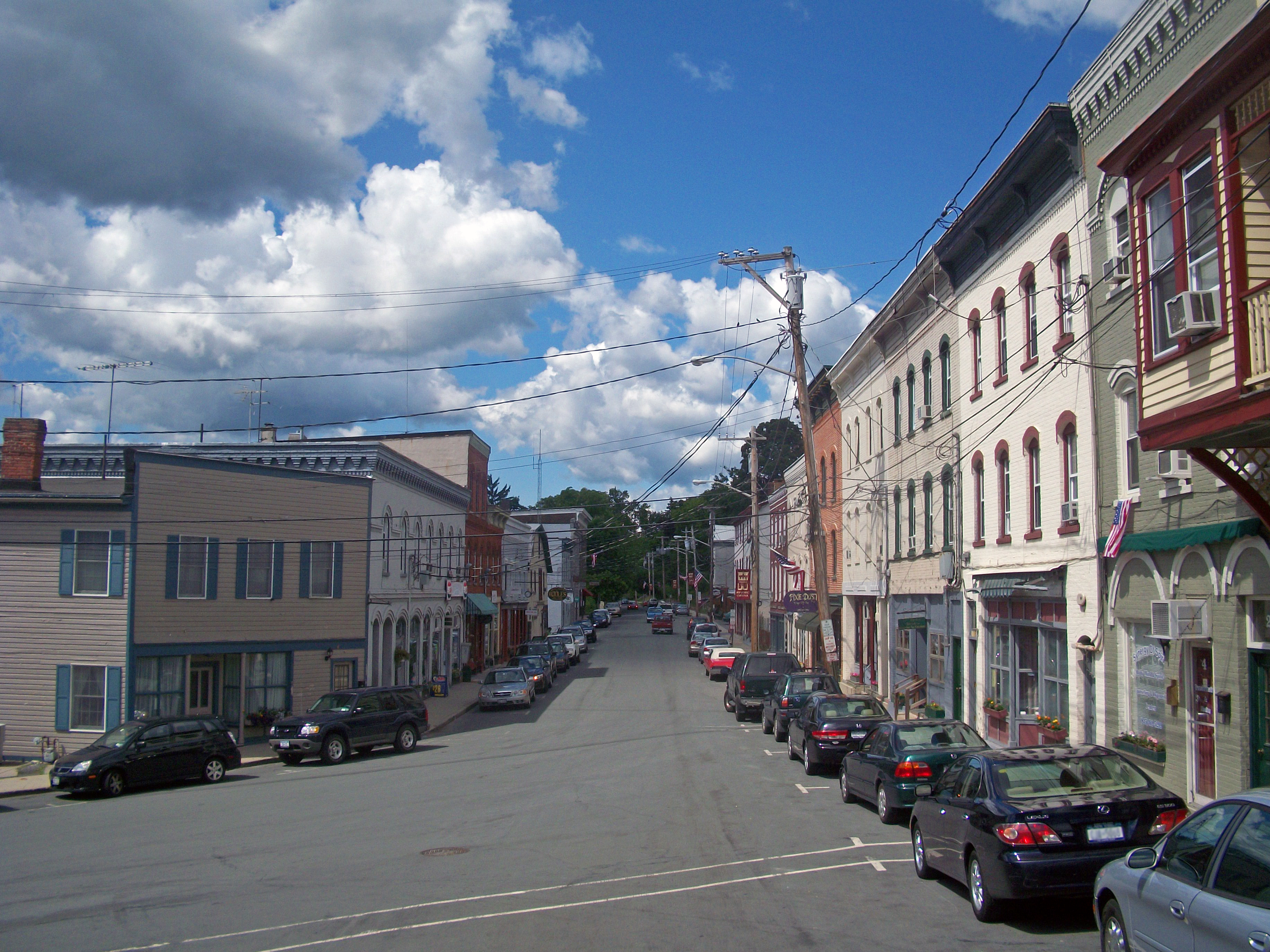 Looking south along Main Street, Chester, NY, USA (Note: License plate number on black Lexus blurred to protect owner's privacy)